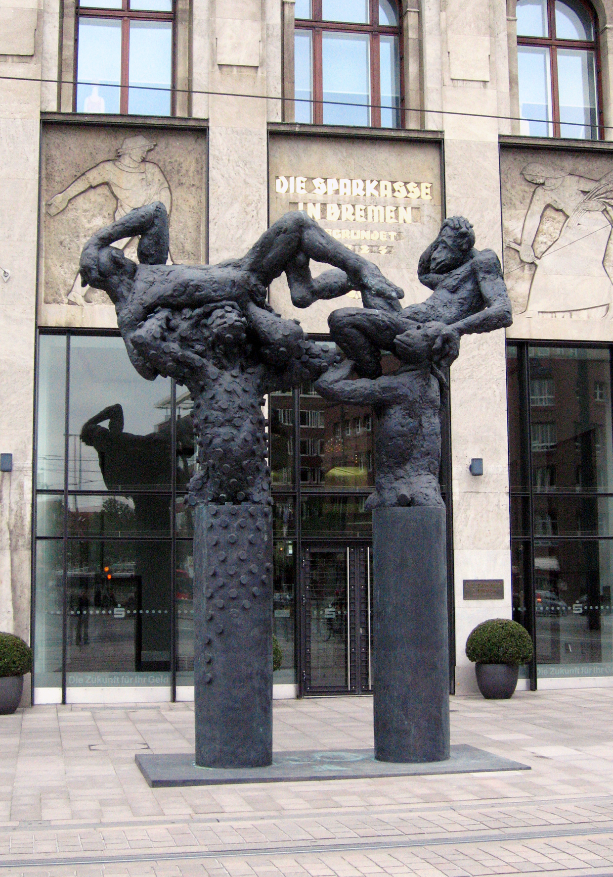 Bronze statue “Affentor” (Monkey gate) by Jörg Immendorff Am Brill in Bremen (Germany).